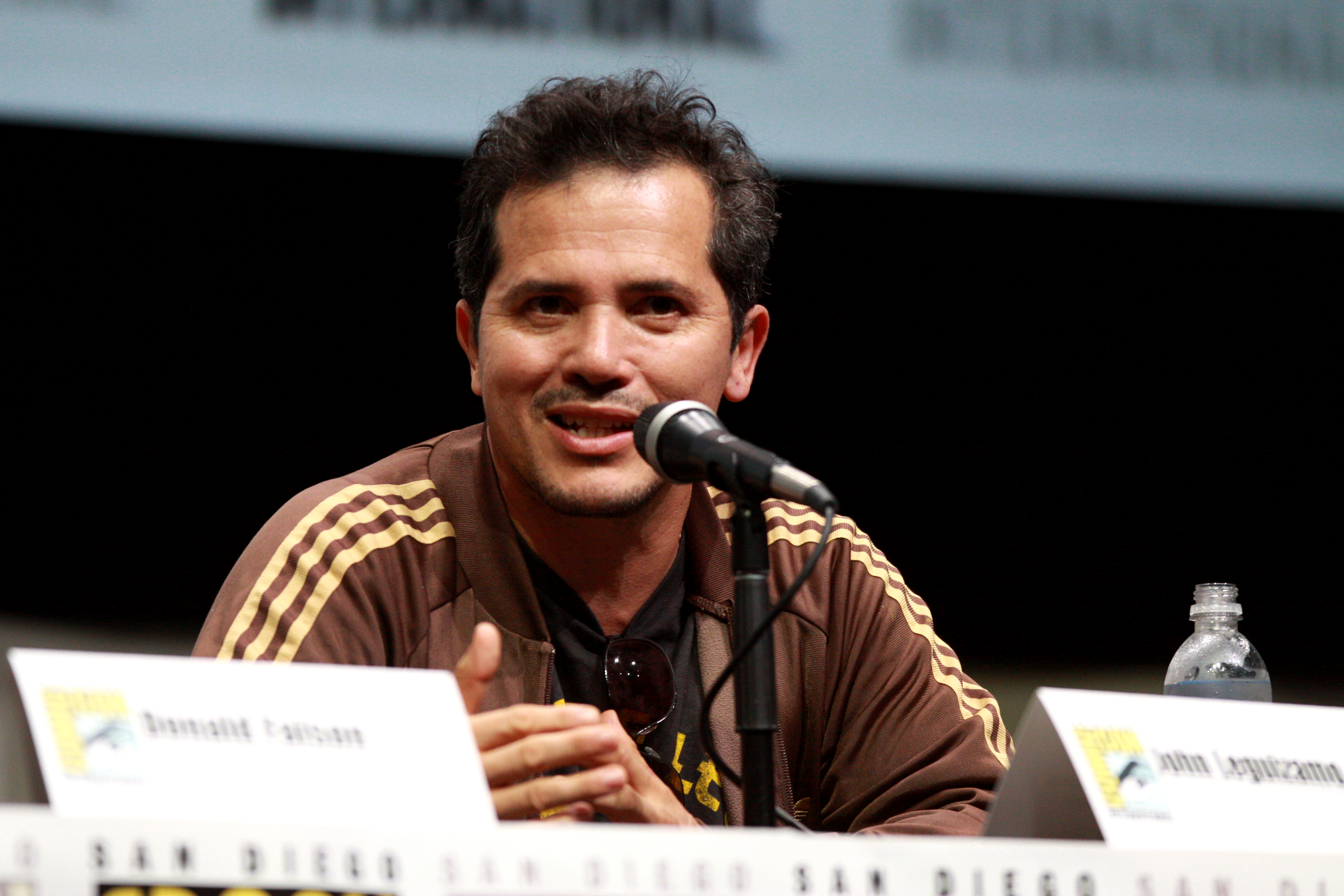 John Leguizamo speaking at the 2013 San Diego Comic Con International, for "Kick-Ass 2", at the San Diego Convention Center in San Diego, California.